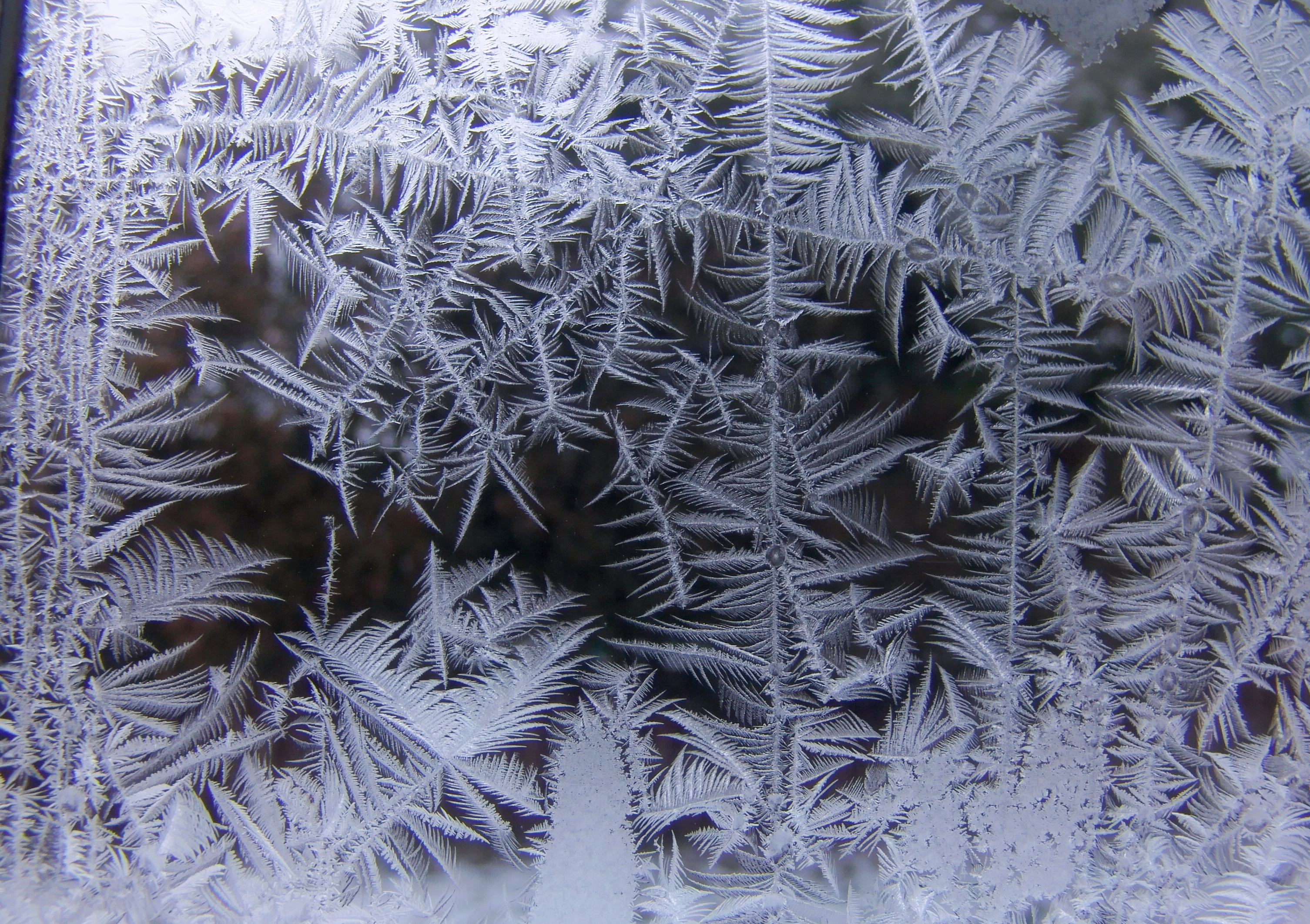 Ice crystals at window